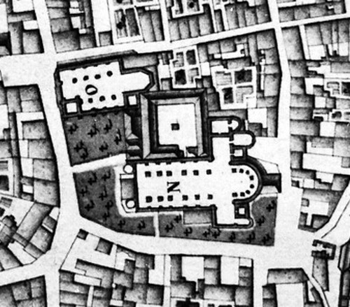 Map of Maastricht by Larcher d'Aubencourt, drawn up in 1749 in preparation of the building of the Maquette of Maastricht (formerly in Musée des Plan-Reliefs, Paris, now in Lille). Detail showing Onze-Lieve-Vrouweplein with the churches of Our Lady (N) and Saint Nicolas (O, demolished).